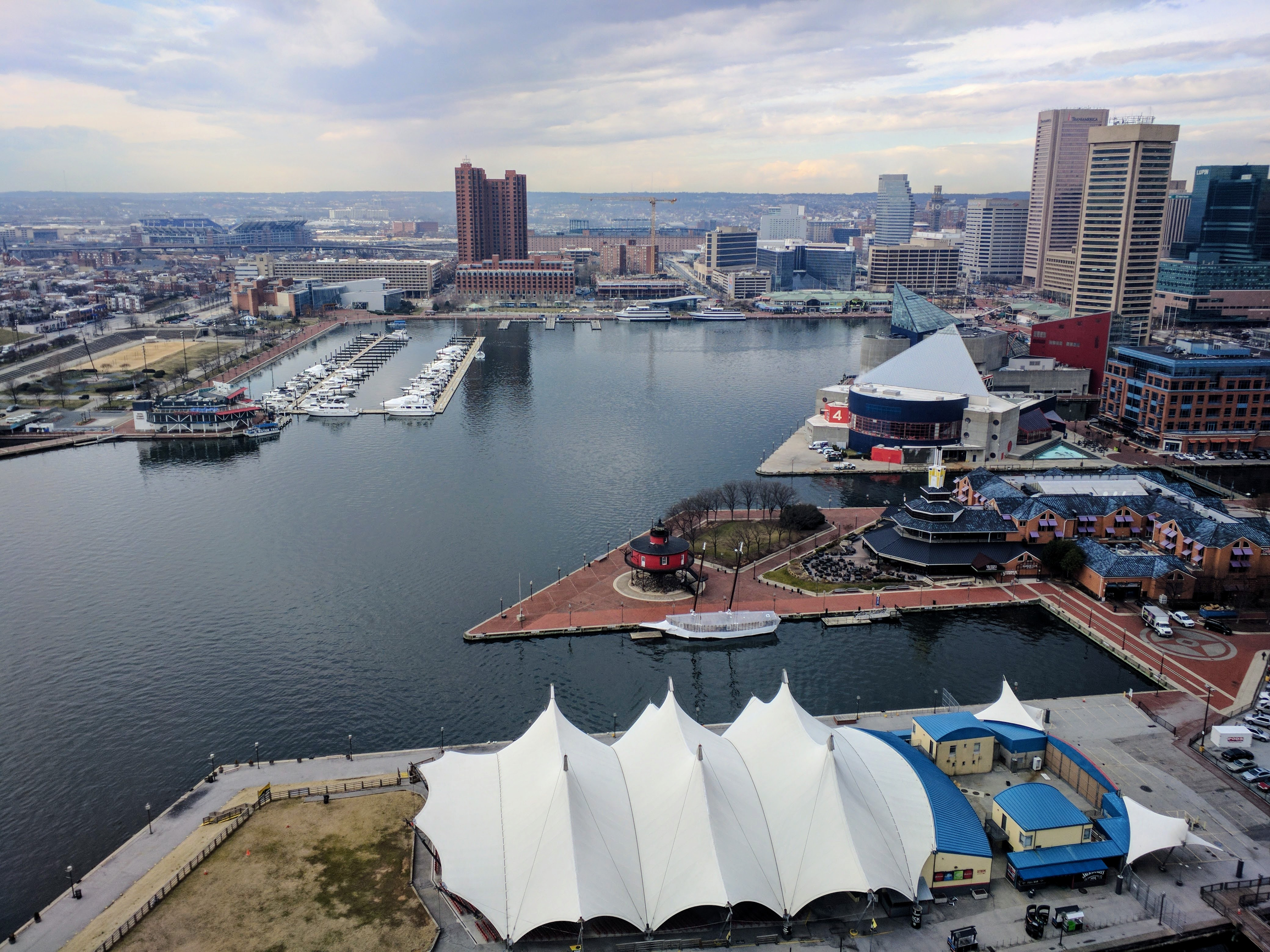 Baltimore's Pier Six Pavilion, foreground, with a good view of Inner Harbor